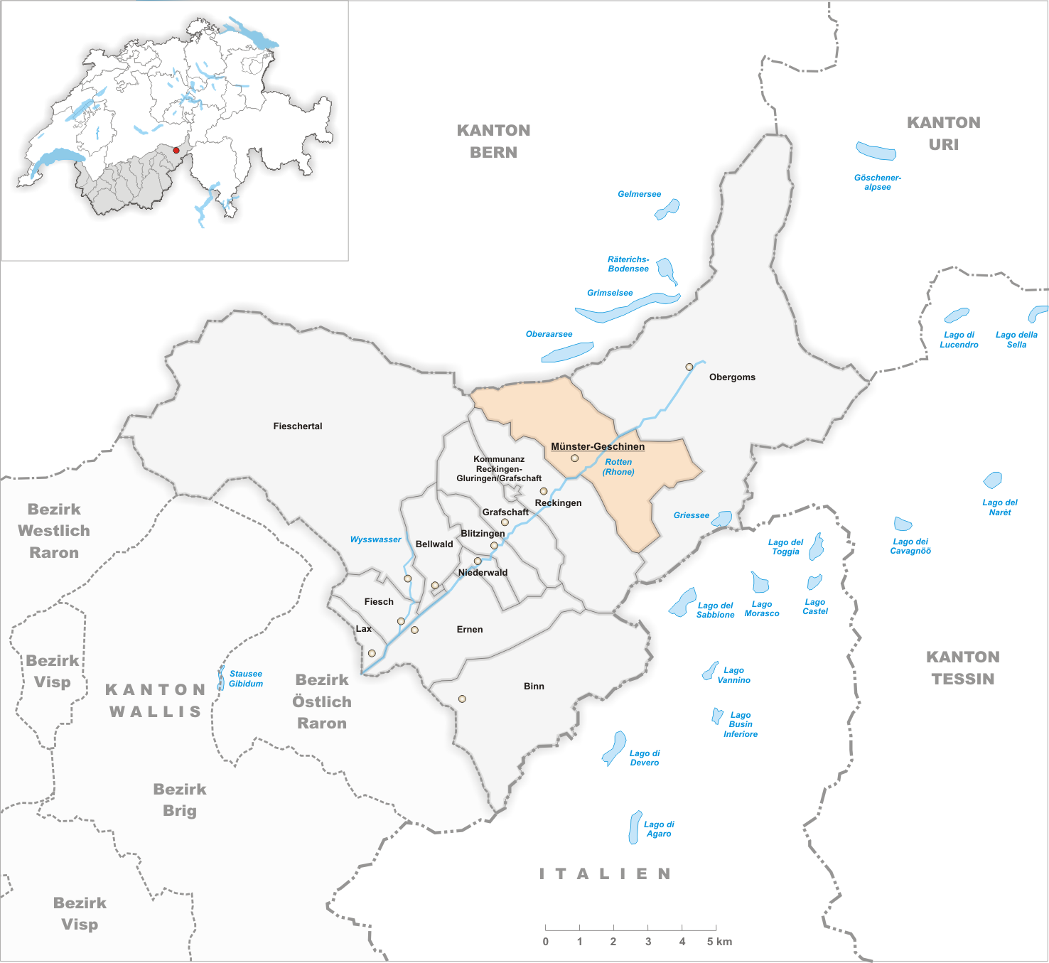 Municipality Münster-Geschinen